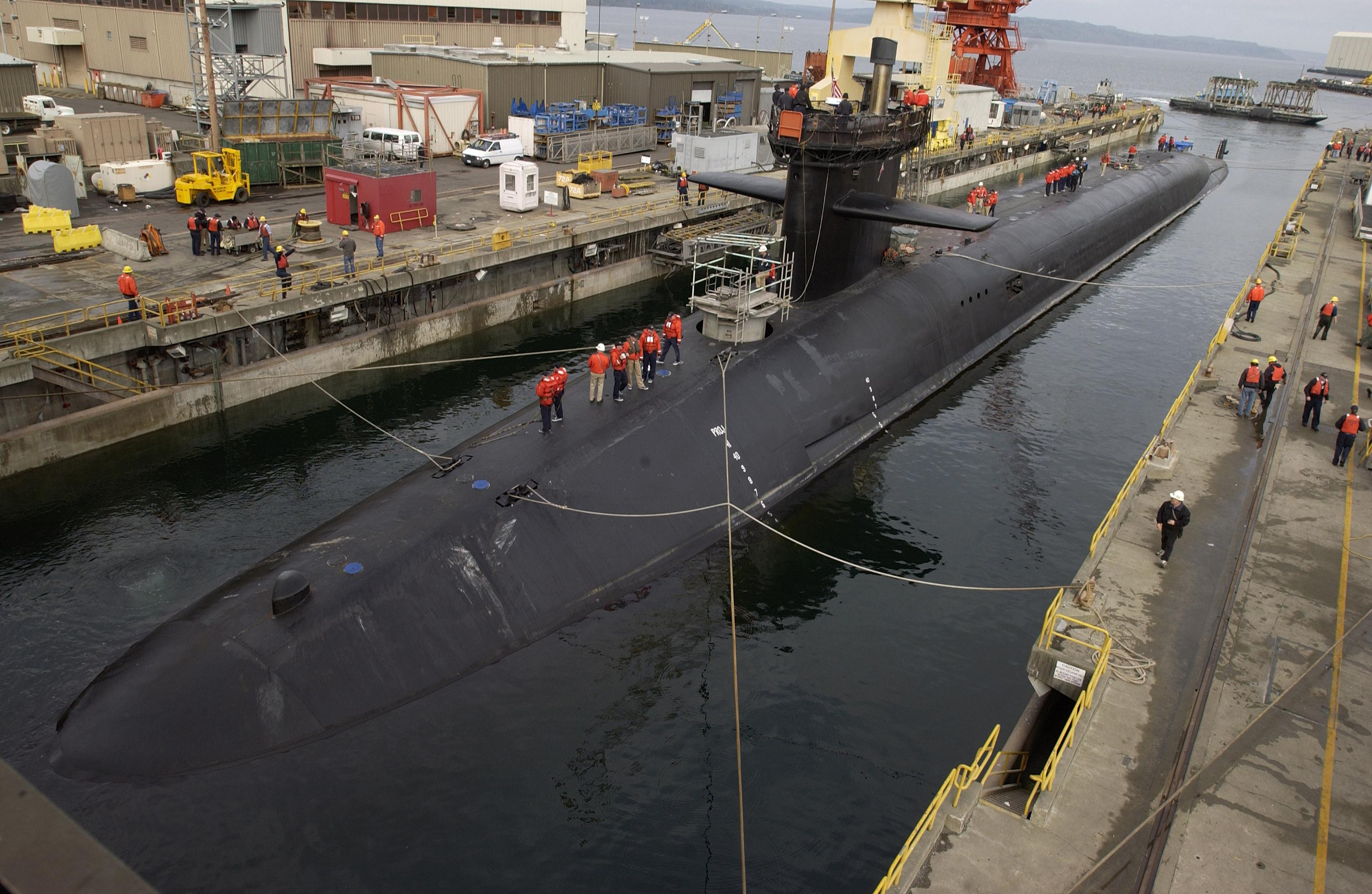 021114-N-6497N-150 Naval Submarine Base, Bangor, Wash. (Nov. 14, 2002) -- Sailors complete the 200th drydocking maneuver of a Trident submarine at the Intermediate Maintenance Facility (IMF) Delta Pier. The strategic missile submarine USS Michigan (SSBN 727) is one of the Trident submarines that IMF has performed maintenance and a substantial level of overhaul work for which they recently celebrated their 20th anniversary.